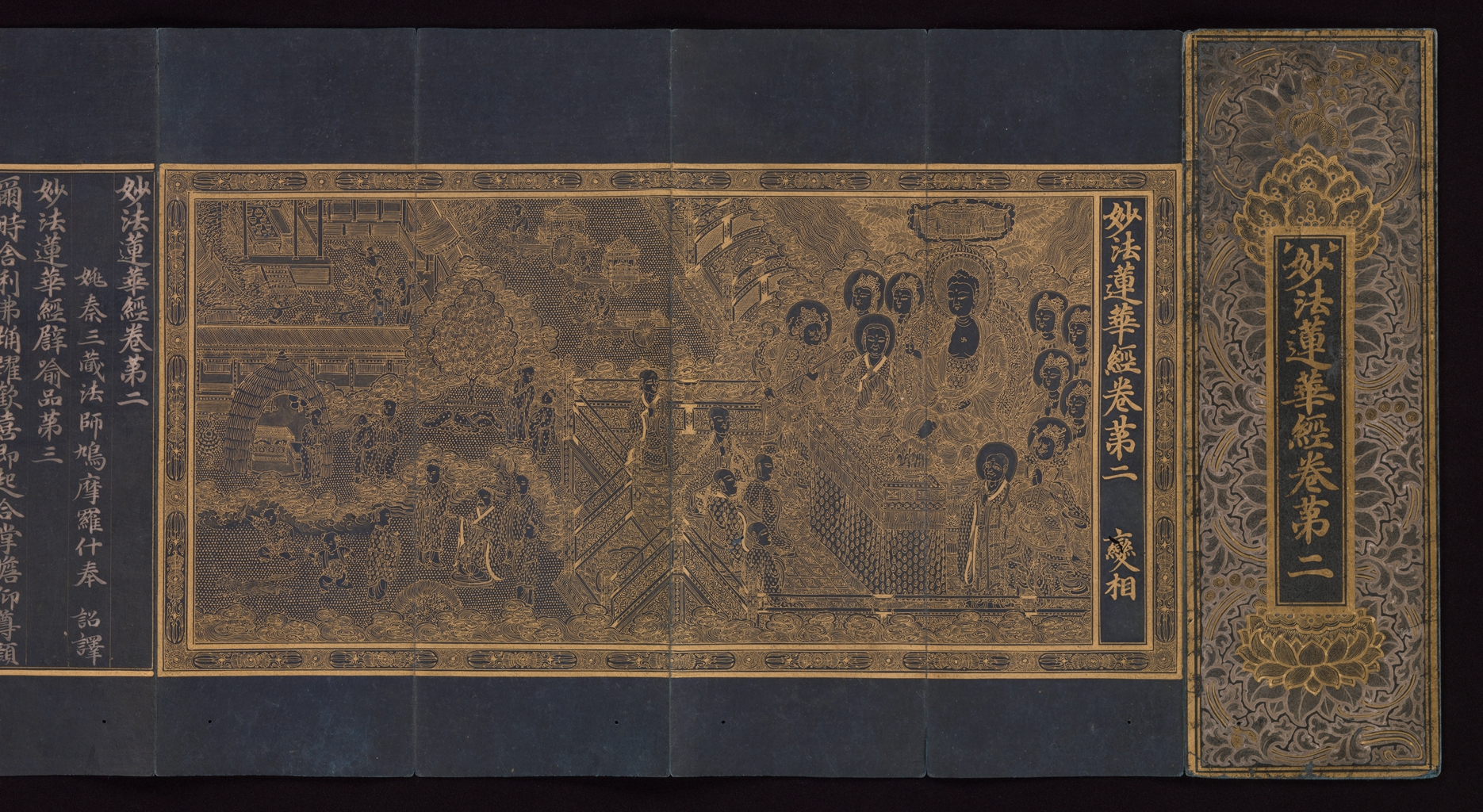 Korea; Folding book; Paintings